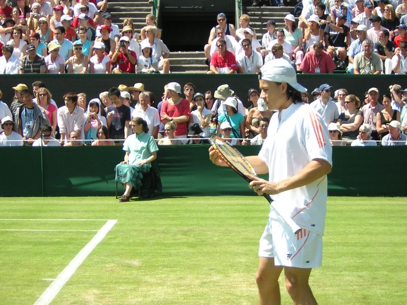 Coria adjusts his racket strings between points.